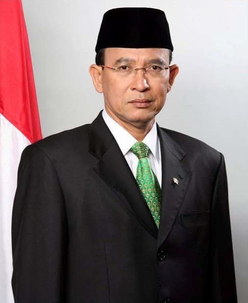 Suryadharma Ali, an Indonesian political leader.